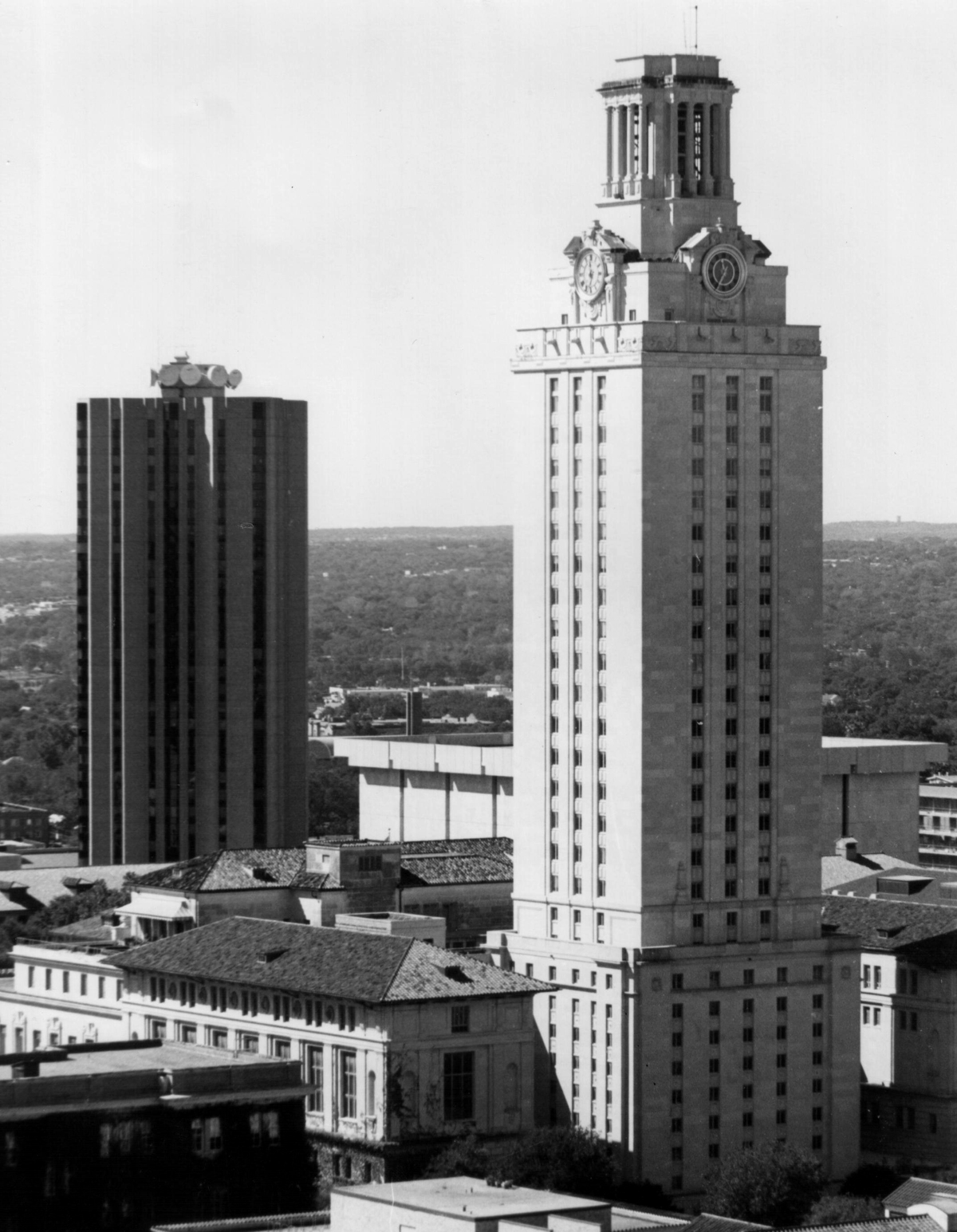 The University of Texas at Austin Tower, Austin, Texas, United States. Dobie Center is in the background.